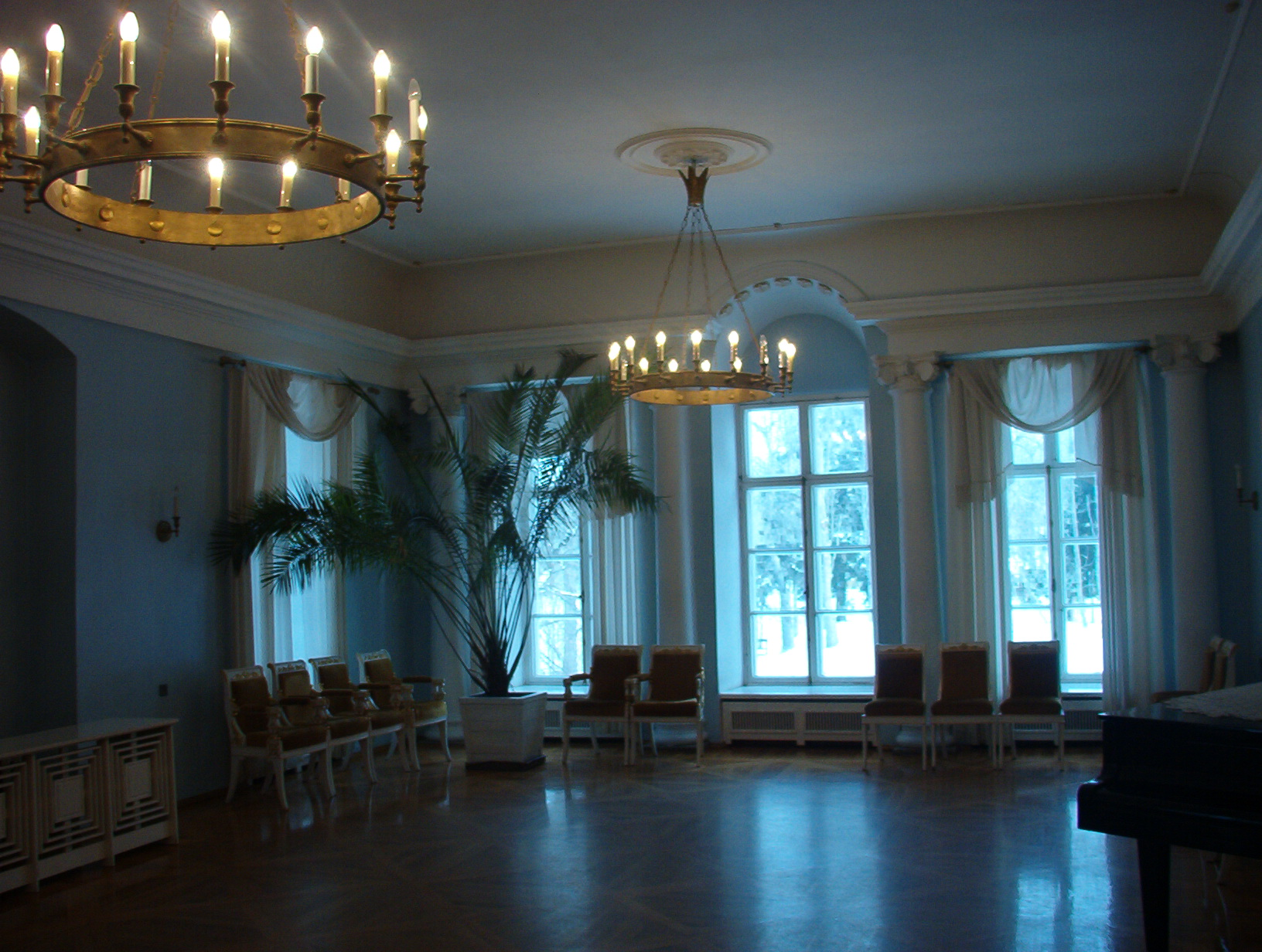 Pirgu manor